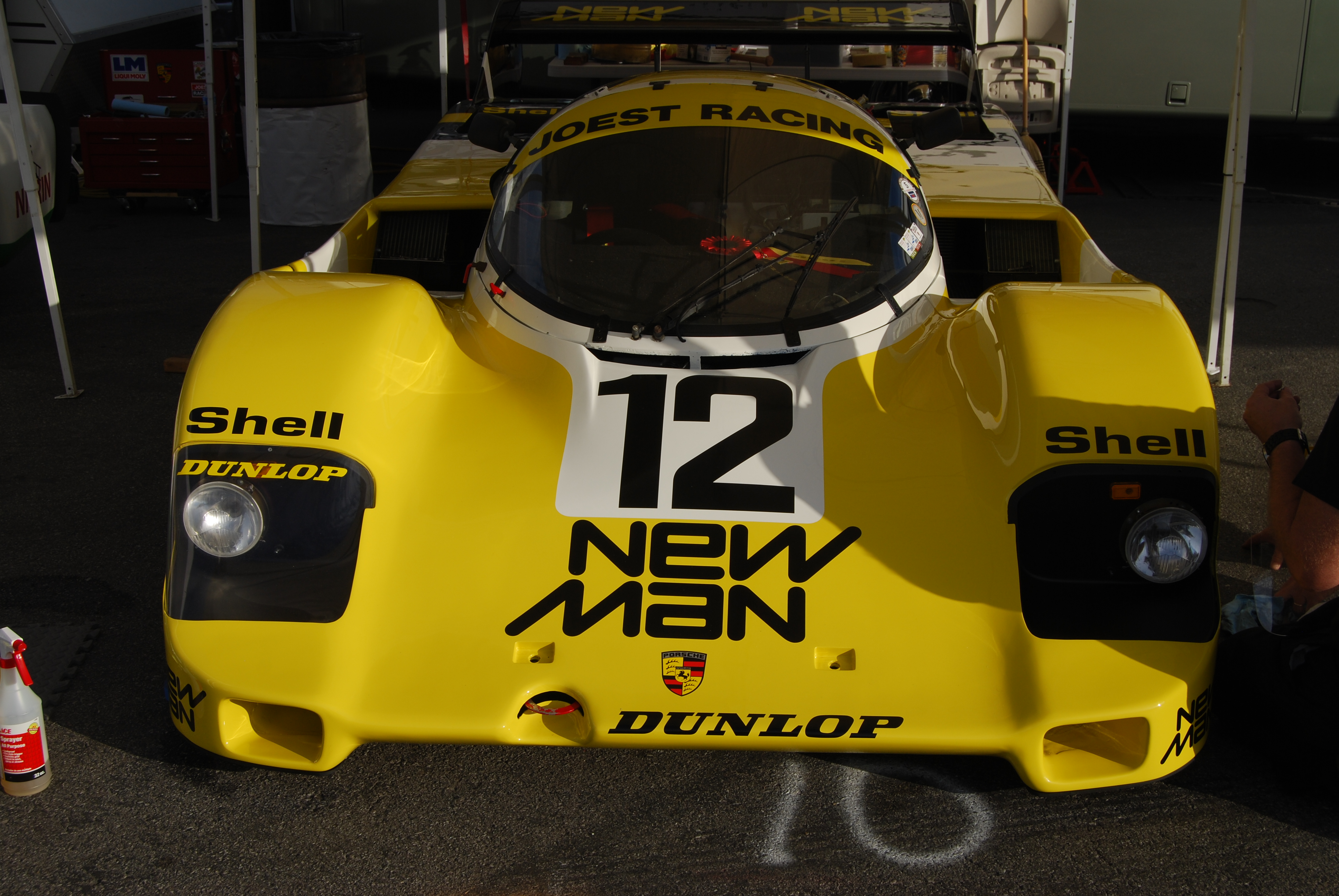 And won for Joest the year following. It happened again 1996-7 when the Joest TWR car beat the 911 GT1s. But I believe Fords did it first - the two Gulf / John Wyer GT-40 wins in 1968 and 1969 were the same car. DSC_0083